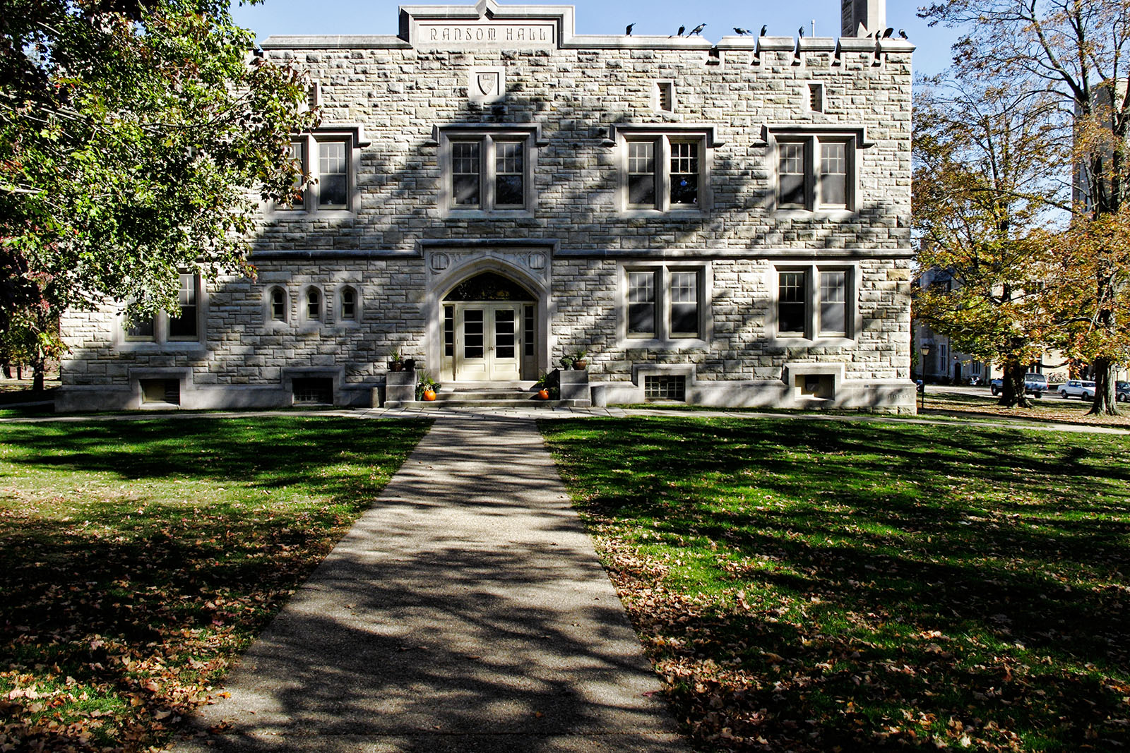 The Ransom Hall at the Kenyon College